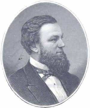 Frederick H. Billings (1823-1890) Image from Northern Pacific stock certificates